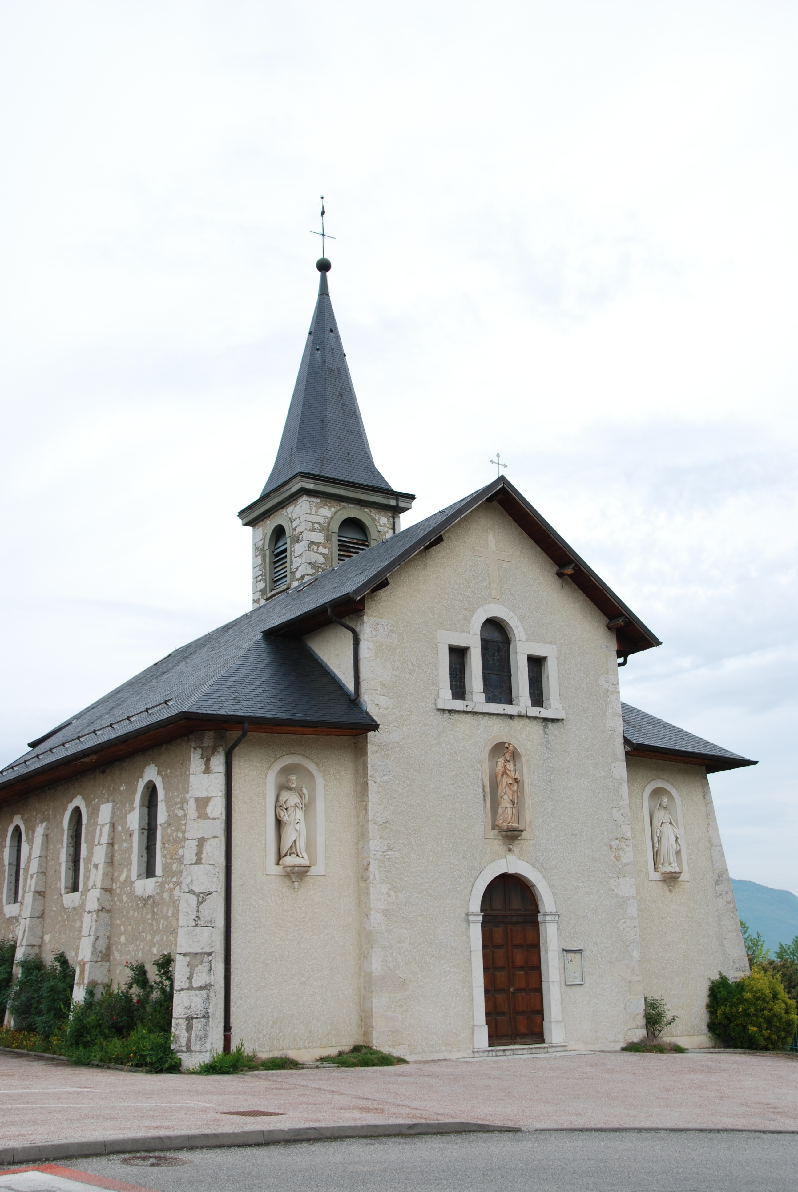 eglise de Mouxy